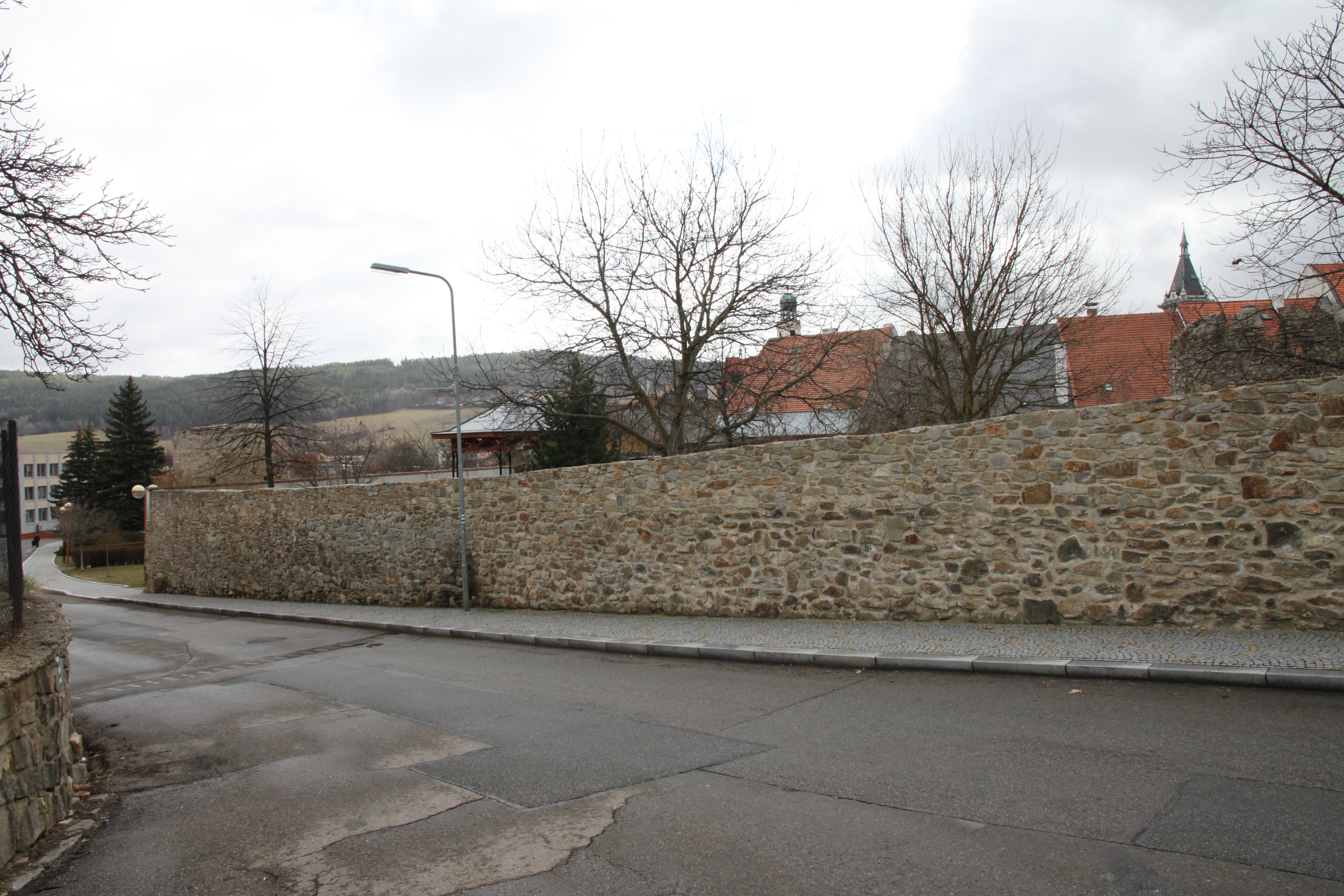 Educational trail Prachatické hradby, Hradební Street, South Bohemian Region, Czechia.